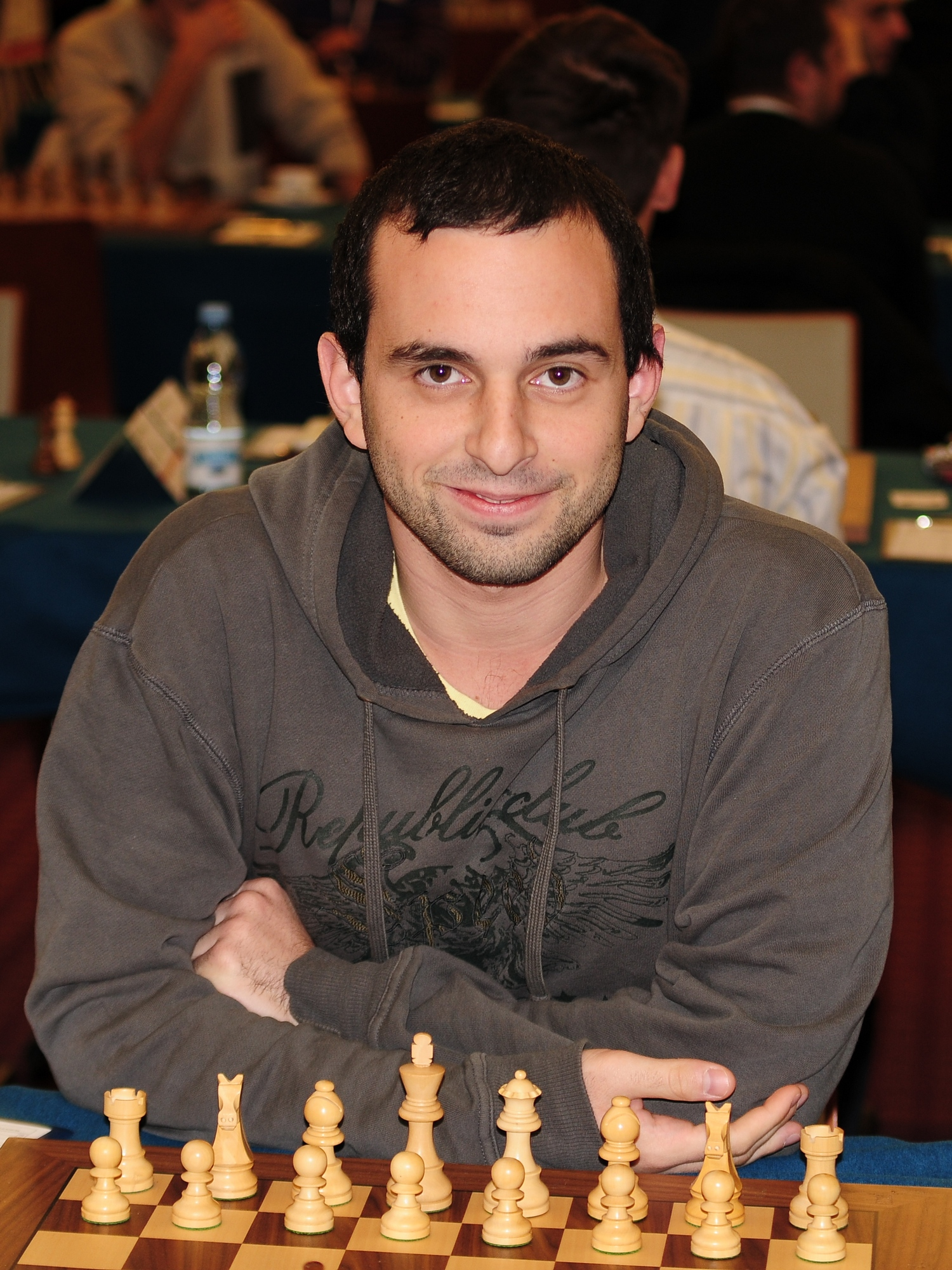 GM Gil Popilski, European Chess Team Championship Warsaw 2013